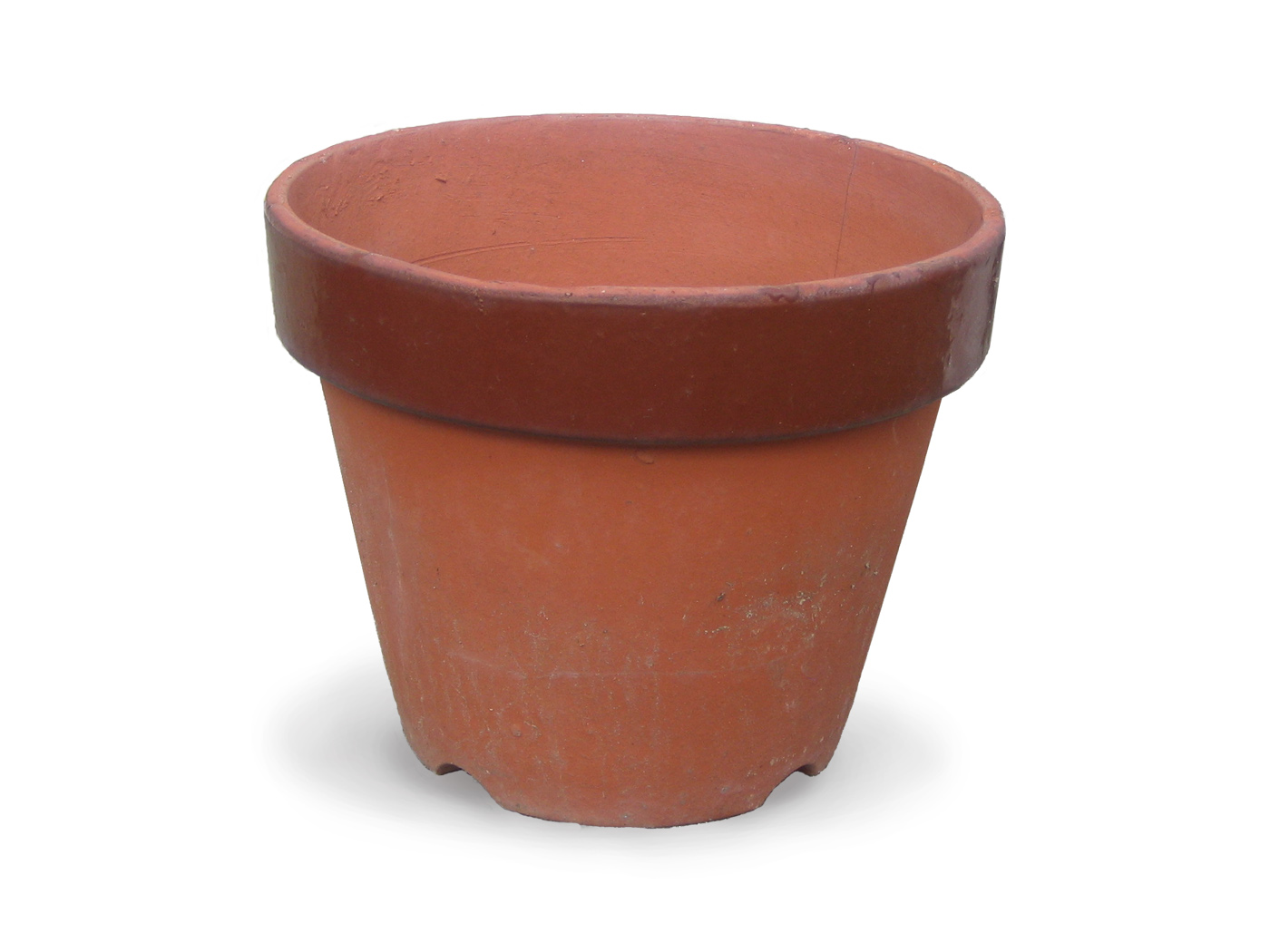 flowerpot